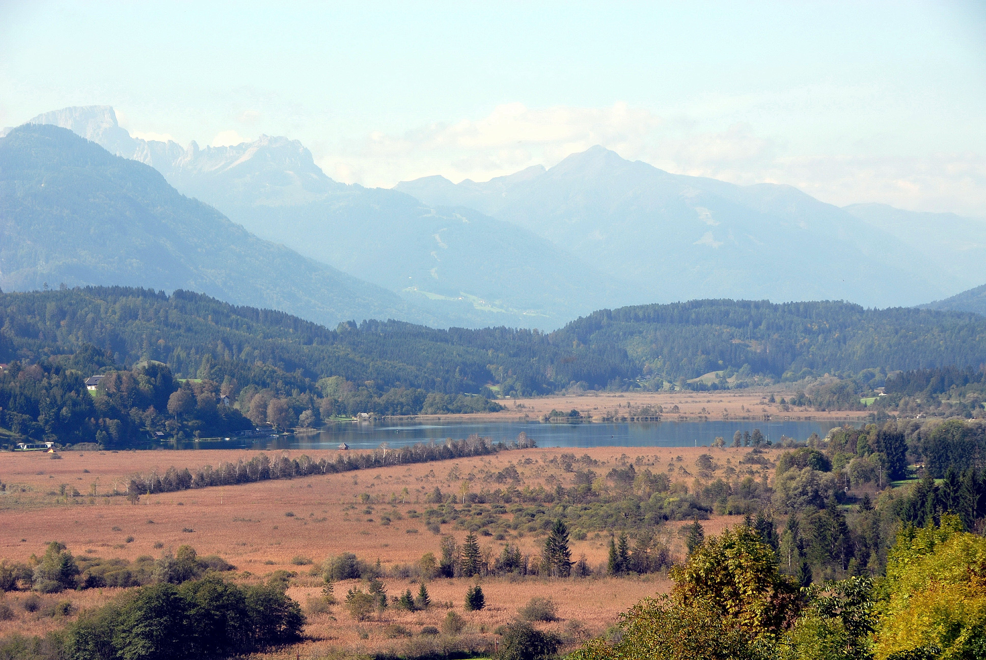 The Pressegger See near Hermagor, Carinthia, Austria.